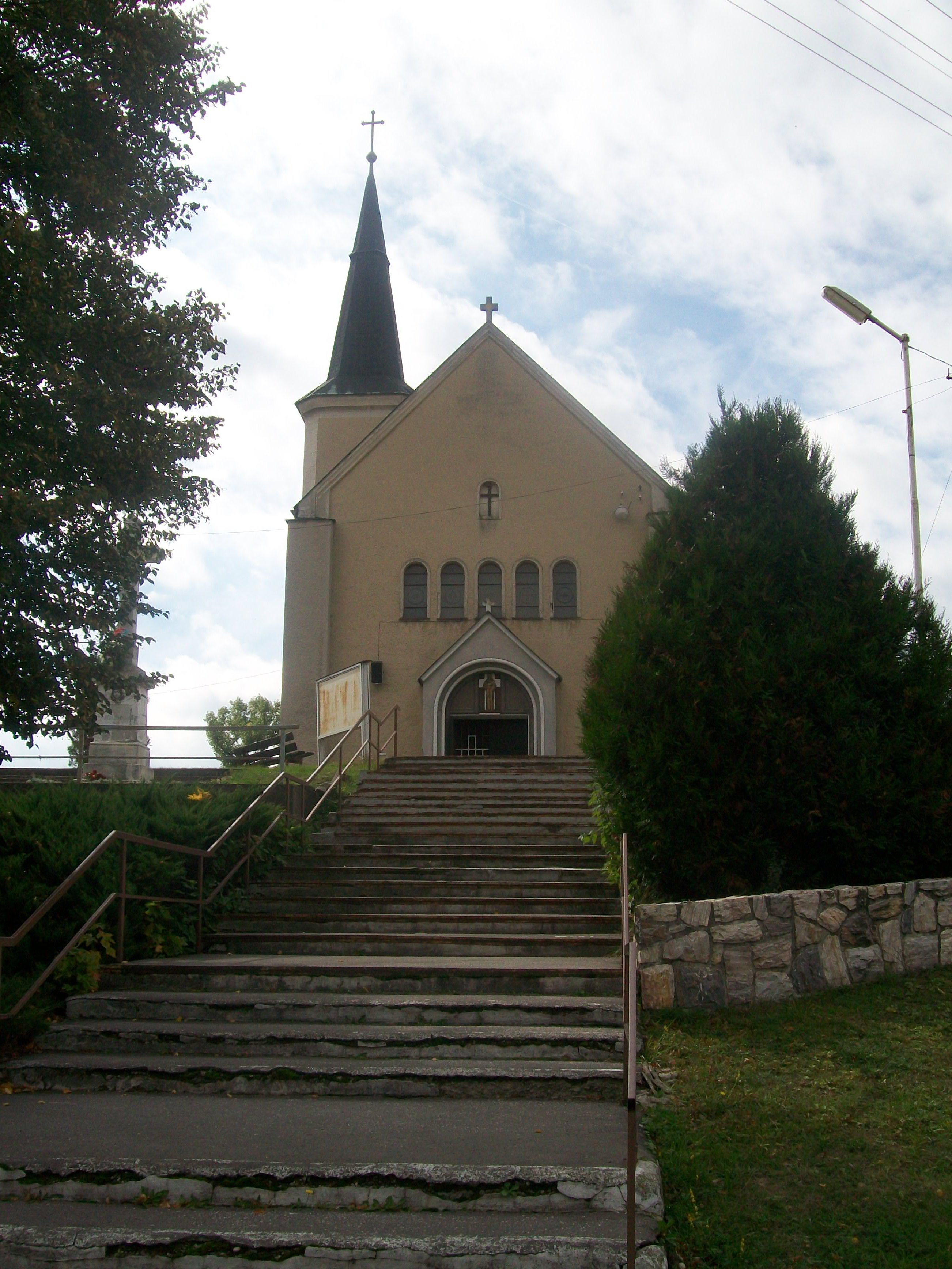 The Roman Catholic Church of St. Martin from year 1930.